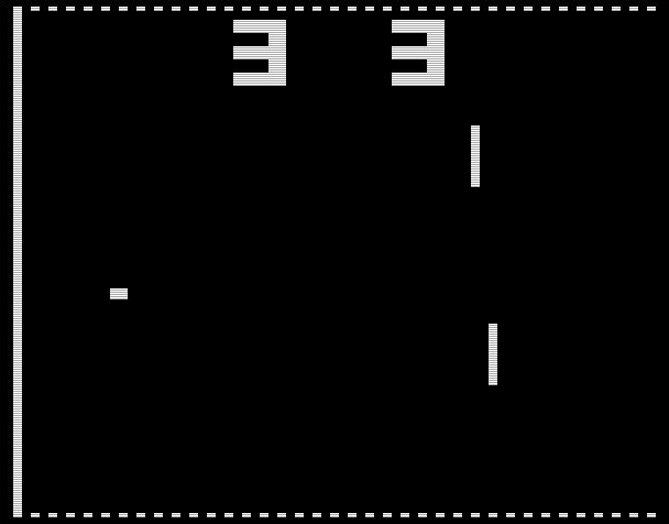 Screenshot Squash AY-3-8500